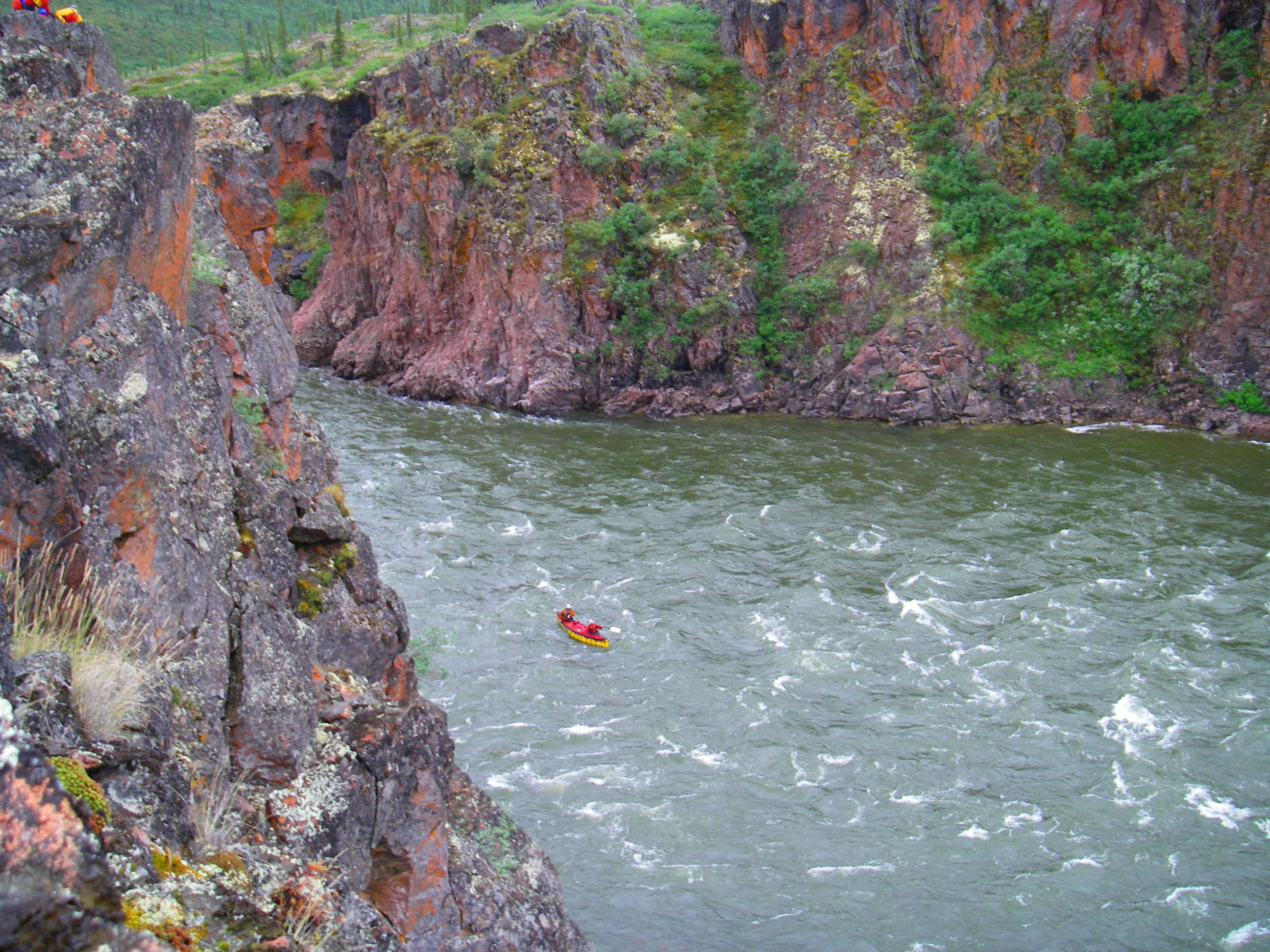 Canoeists paddling the Rocky Defile rapids of the Coppermine River, Nunavut